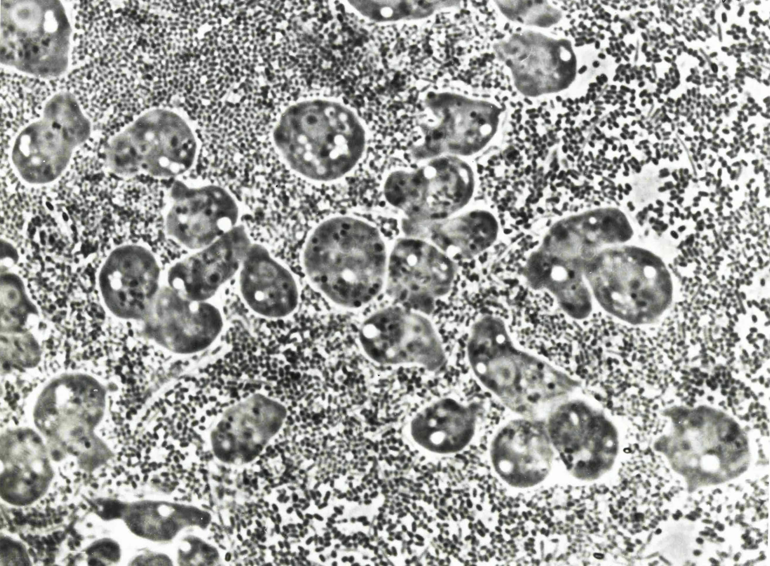 Amoebae growing on lawns of live Escherichia coli